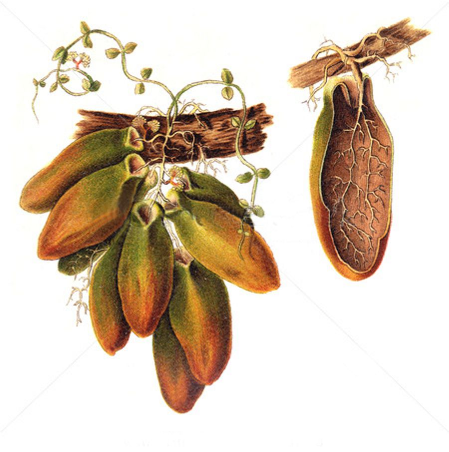 Dischidia major (Vahl) Merr., from Meyers Konversations-Lexikon 1897